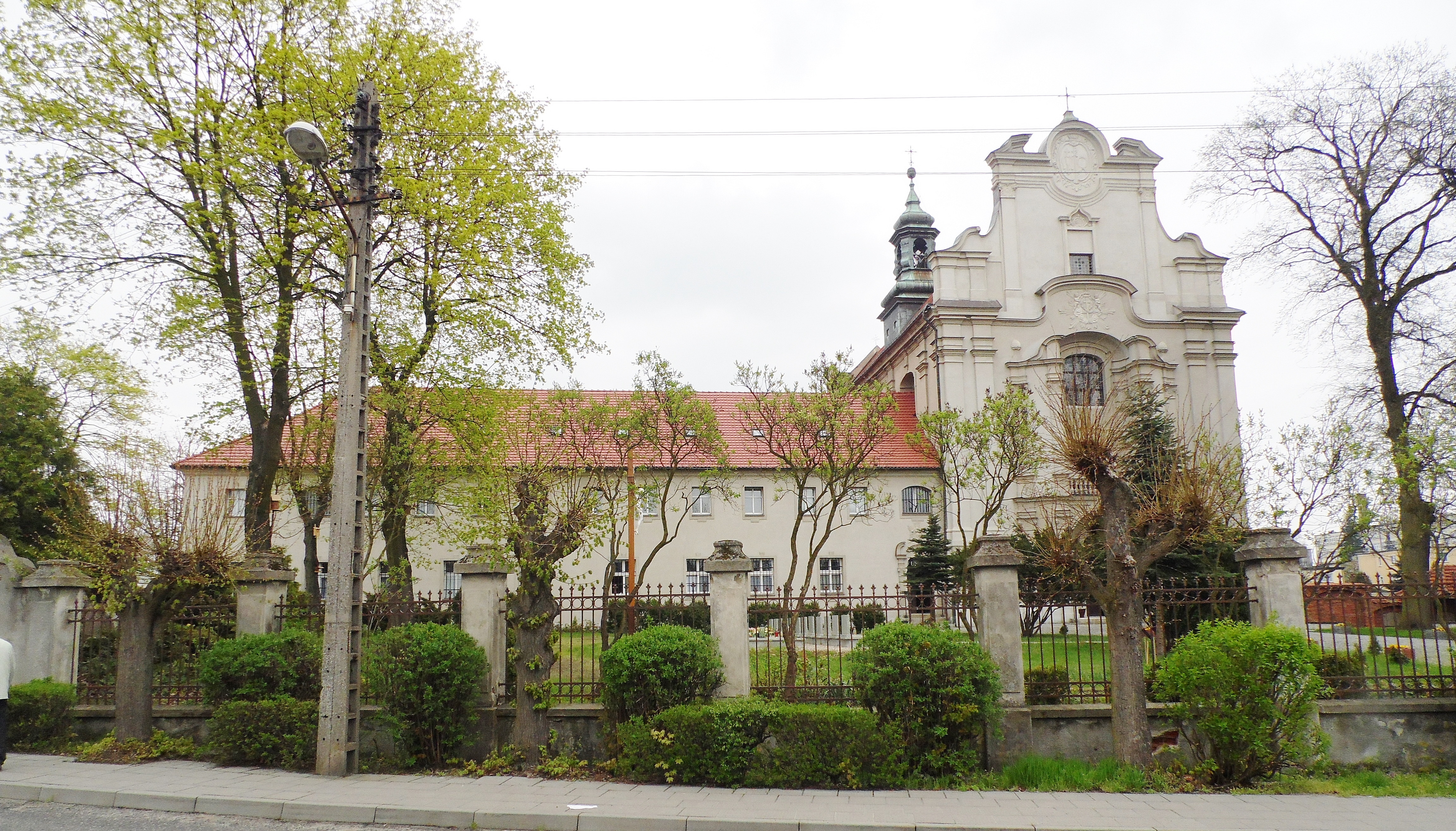 Church. St. Valentine, the monastery of 1 half of the eighteenth century Osieczno st. Father Frankiewicza / area. Leszno / province. Greater Poland / Poland